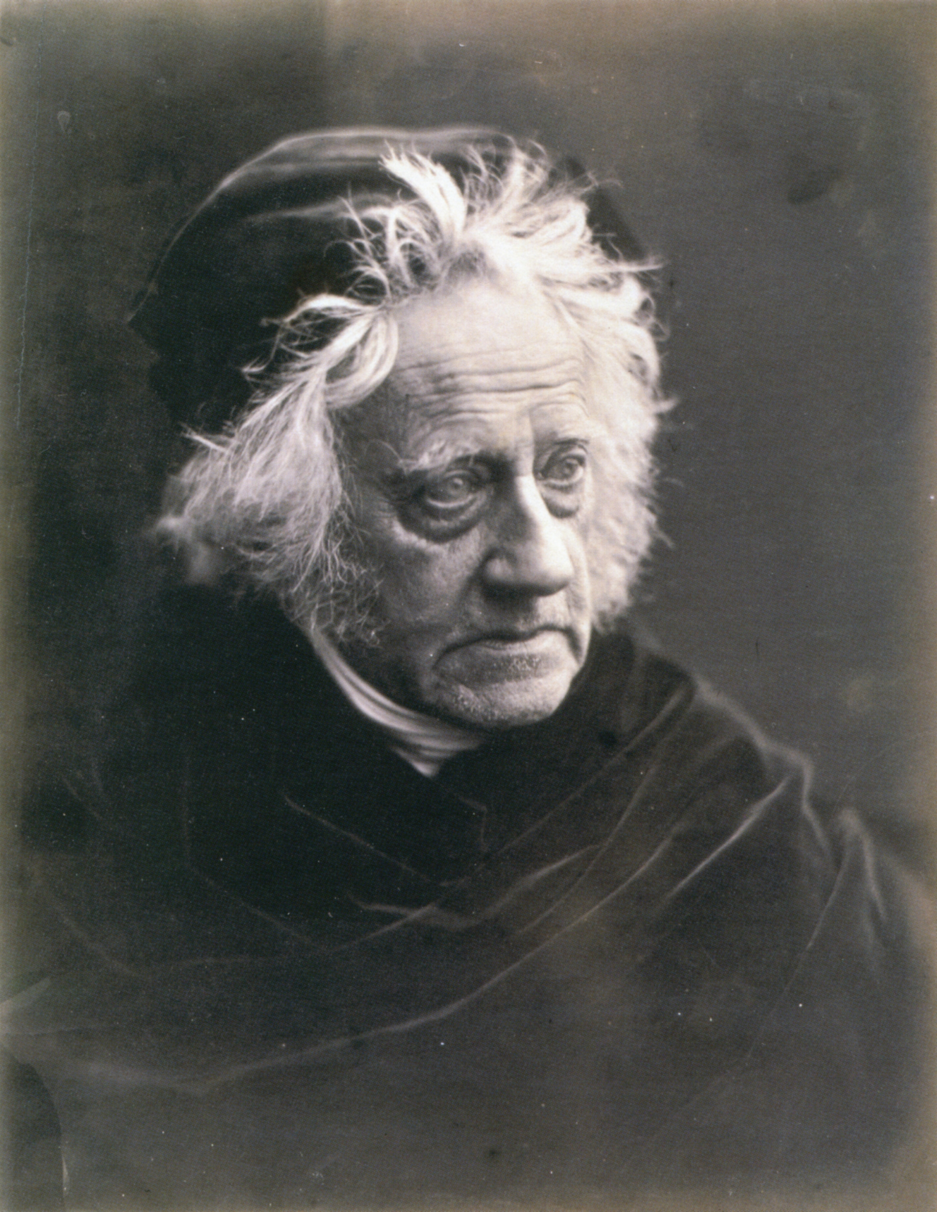 "Sir John Herschel with Cap". Subject is John Herschel, English mathematician and scientist. Albumen print, 340 x 264mm (13 3/8 x 10 3/8"). National Portrait Gallery: NPG P213 While Commons policy accepts the use of this media, one or more third parties have made copyright claims against Wikimedia Commons in relation to the work from which this is sourced or a purely mechanical reproduction thereof. This may be due to recognition of the "sweat of the brow" doctrine, allowing works to be eligible for protection through skill and labour, and not purely by originality as is the case in the United States (where this website is hosted). These claims may or may not be valid in all jurisdictions. As such, use of this image in the jurisdiction of the claimant or other countries may be regarded as copyright infringement. Please see Commons:When to use the PD-Art tag for more information.See User:Dcoetzee/NPG legal threat for original threat and National Portrait Gallery and Wikimedia Foundation copyright dispute for more information. This tag does not indicate the copyright status of the attached work. A normal copyright tag is still required. See Commons:Licensing for more information.